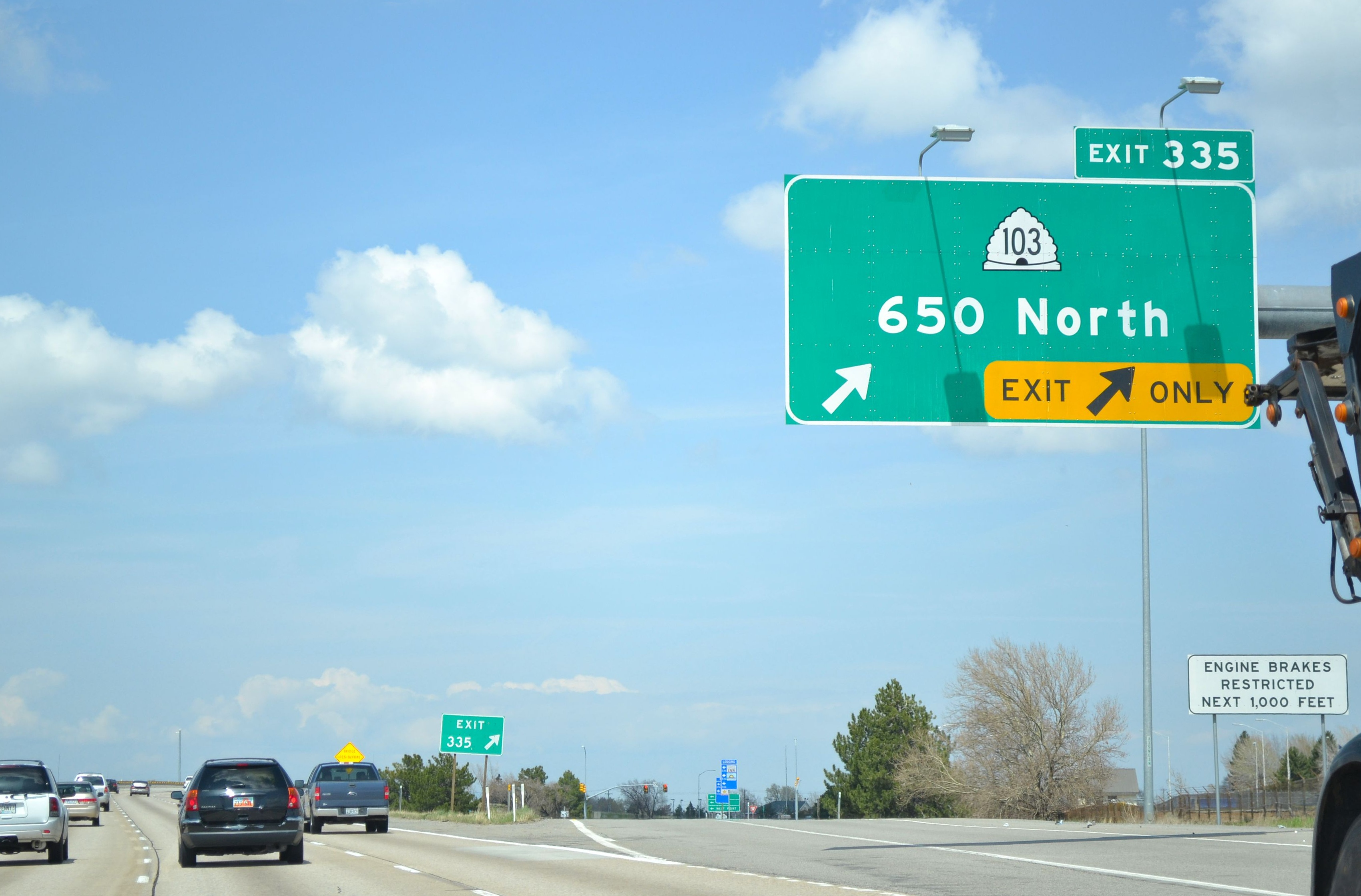 Northbound on Interstate 15 at the exit for SR-103 in Clearfield, Utah. This is a retouched picture, which means that it has been digitally altered from its original version. Modifications: rotated by 2.70 deg ccw; cropping & retouching of some missing corner-parts with nearby content. Modifications made by Jaybear.